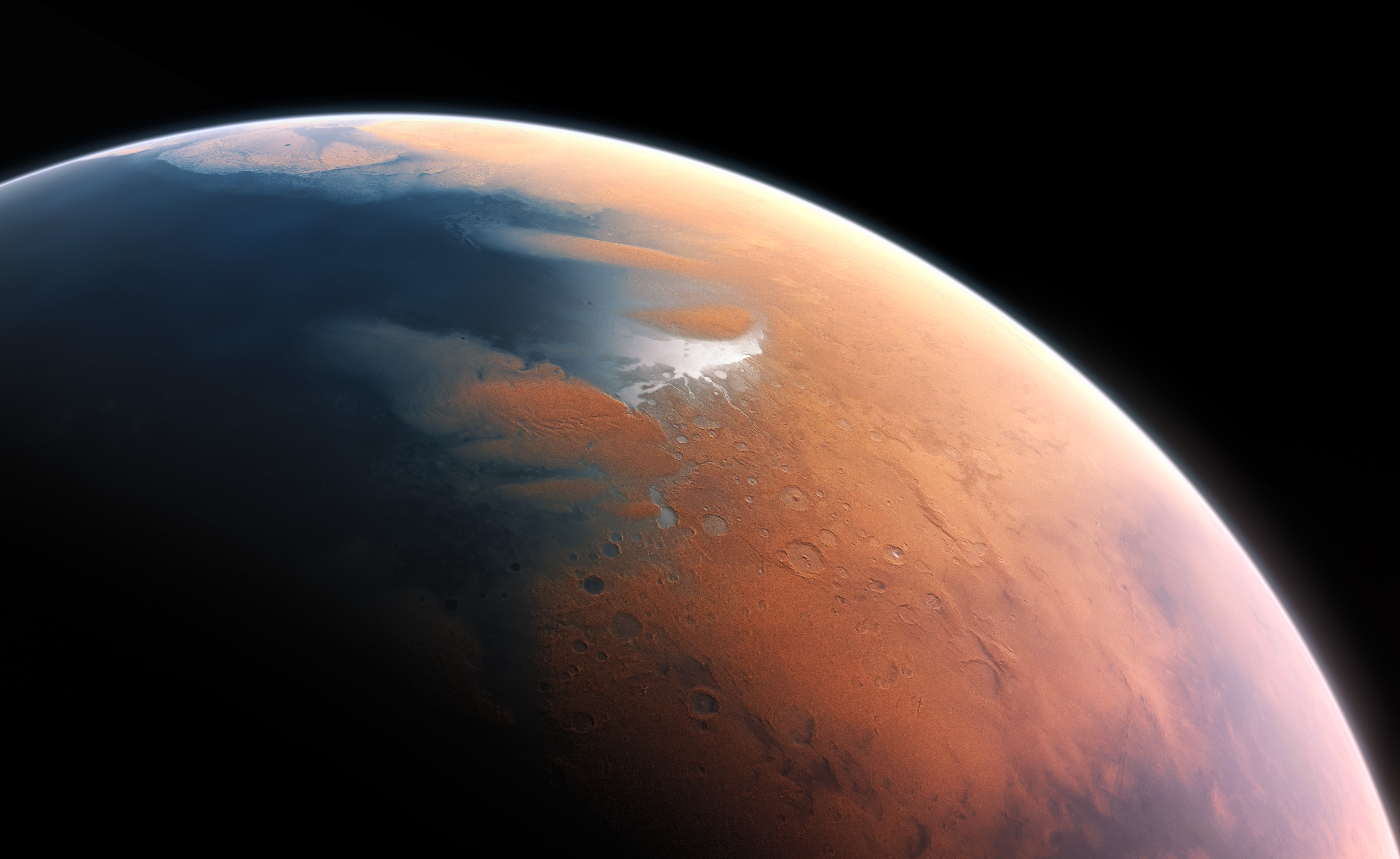 This artist’s impression shows how Mars may have looked about four billion years ago. The young planet Mars would have had enough water to cover its entire surface in a liquid layer about 140 metres deep, but it is more likely that the liquid would have pooled to form an ocean occupying almost half of Mars’s northern hemisphere, and in some regions reaching depths greater than 1.6 kilometres.